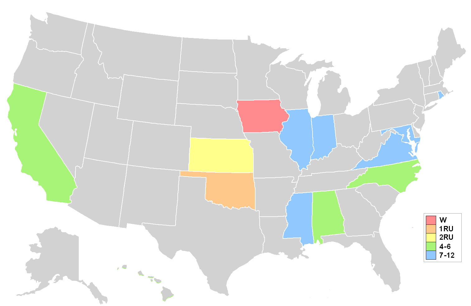 Map showing placements at the Miss Teen USA 1992 pageant. Key on graphic shows colour coding for break down of placements.